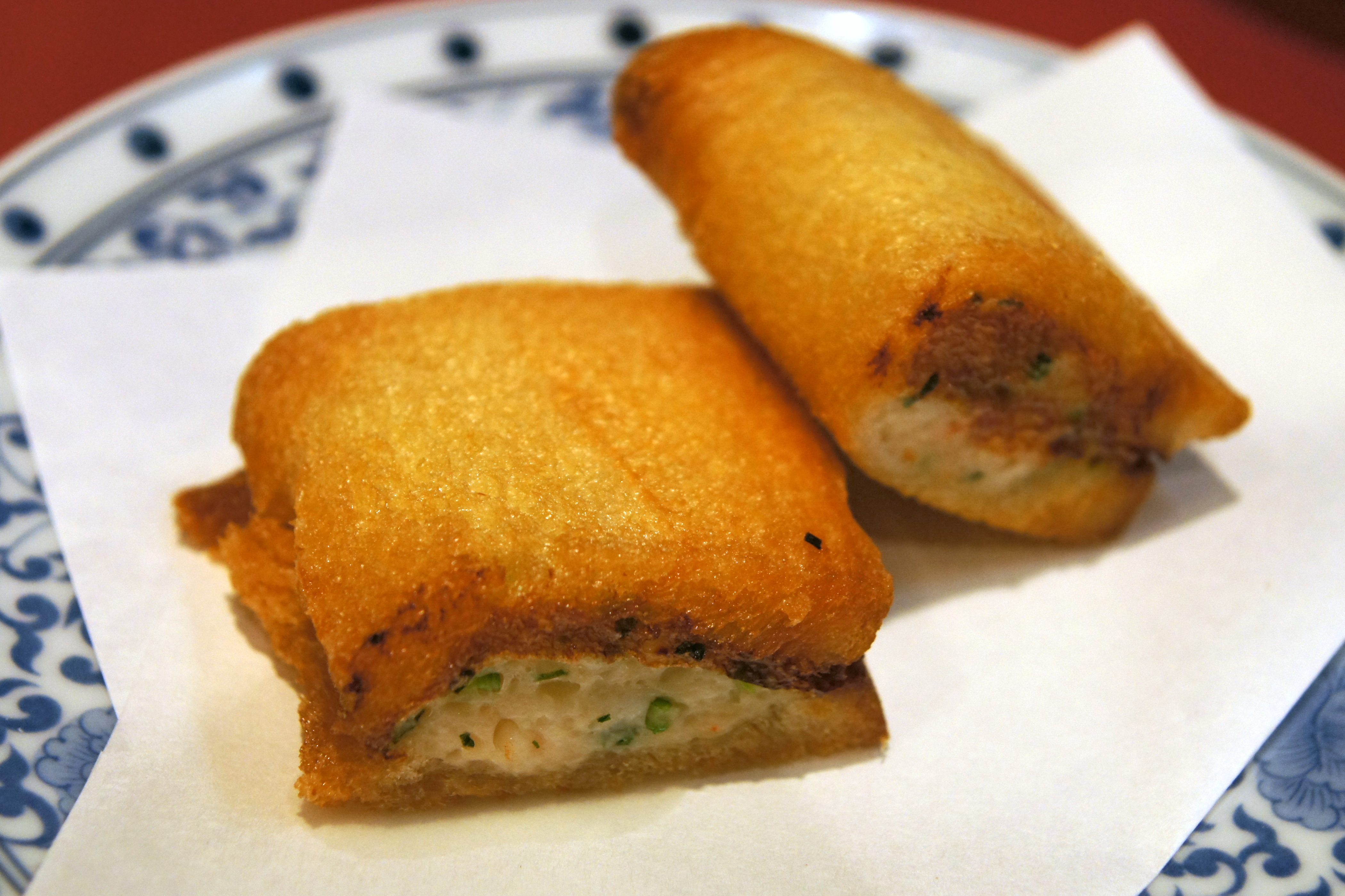 Shippoku cuisine at "Nagasaki Shippoku Hamakatsu" in Nagasaki, Nagasaki prefecture, Japan